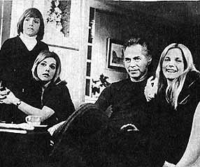 Argentine actors Fernanda Mistral, Jorge Barreiro and Cristina del Valle (1973).